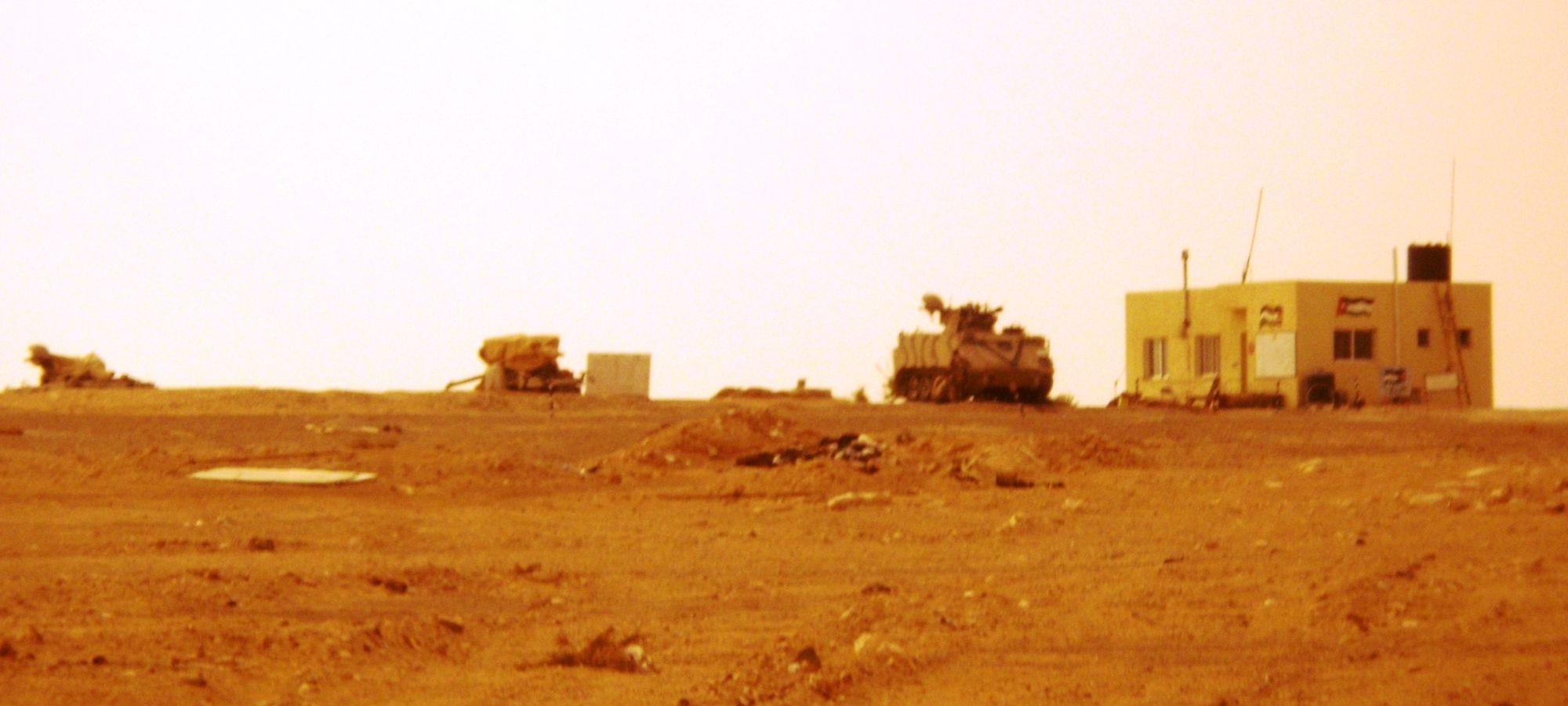 A jordanian M163-VADS-AA-tank at Muwaffaq Salti Air Base, Jordan.